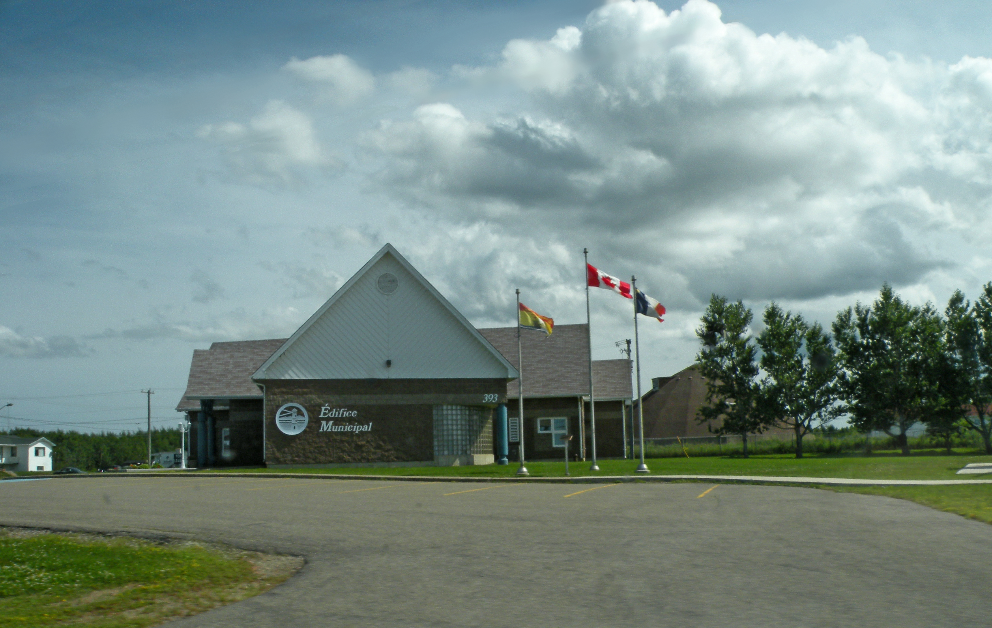 Grande-Anse, New Brunswick, Canada.